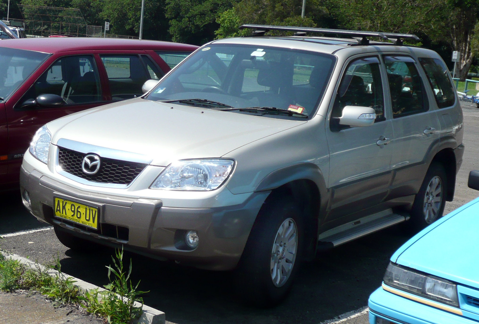 2006 Mazda Tribute (MY06) Luxury V6 wagon. Photographed in Cronulla, New South Wales, Australia.